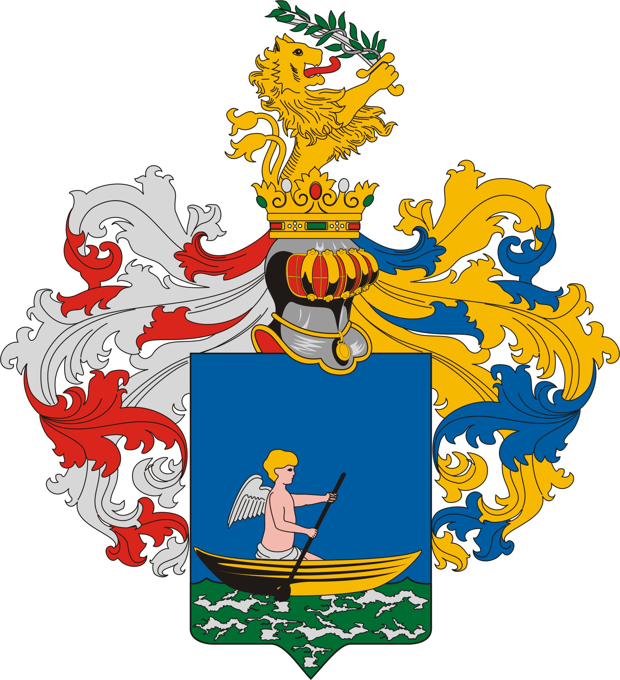 Coat of arms of Óföldeák, Hungary